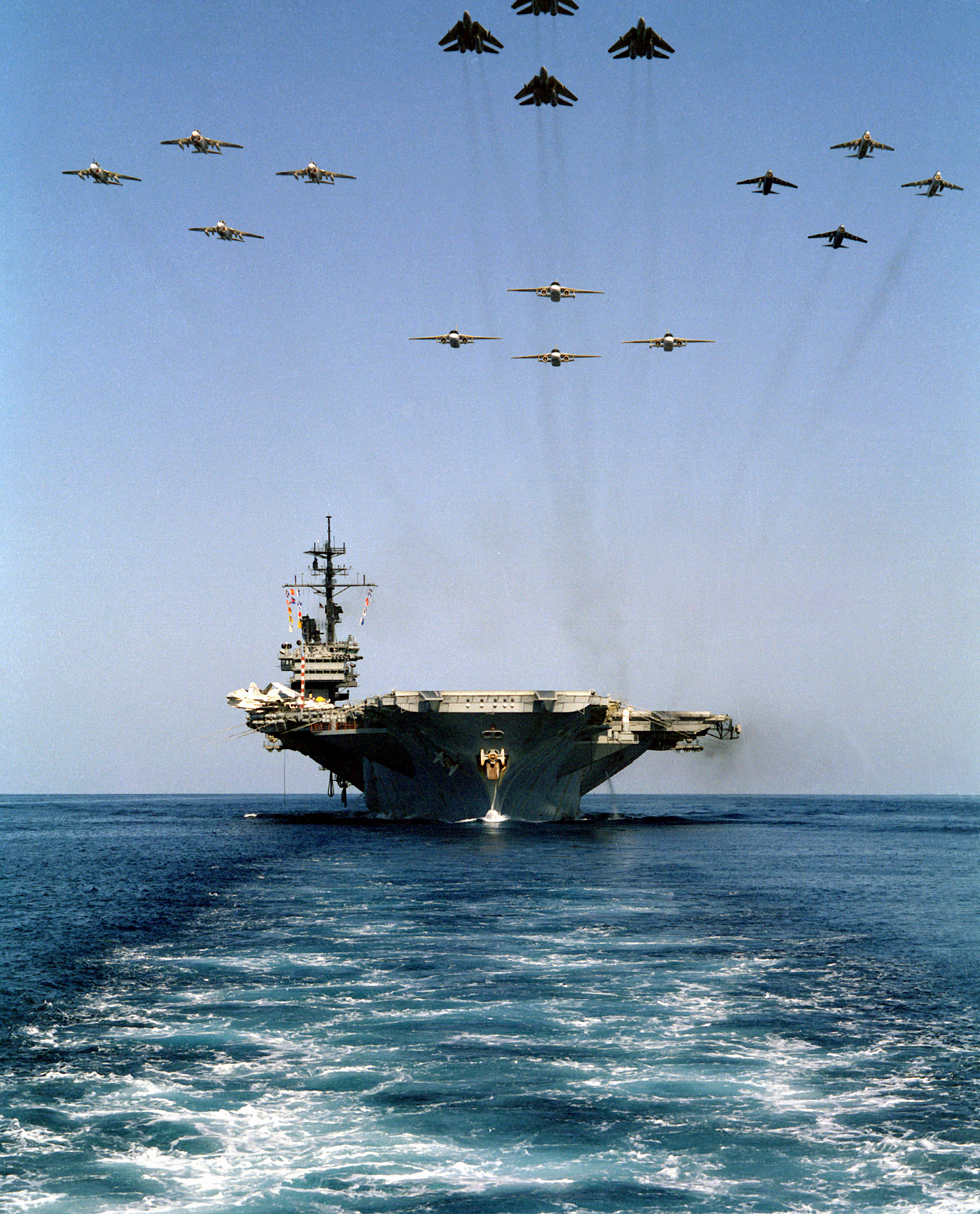 A bow view of the aircraft carrier USS AMERICA (CV-66) underway as 16 aircraft from Carrier Air Wing One (CVW-1) fly overhead.